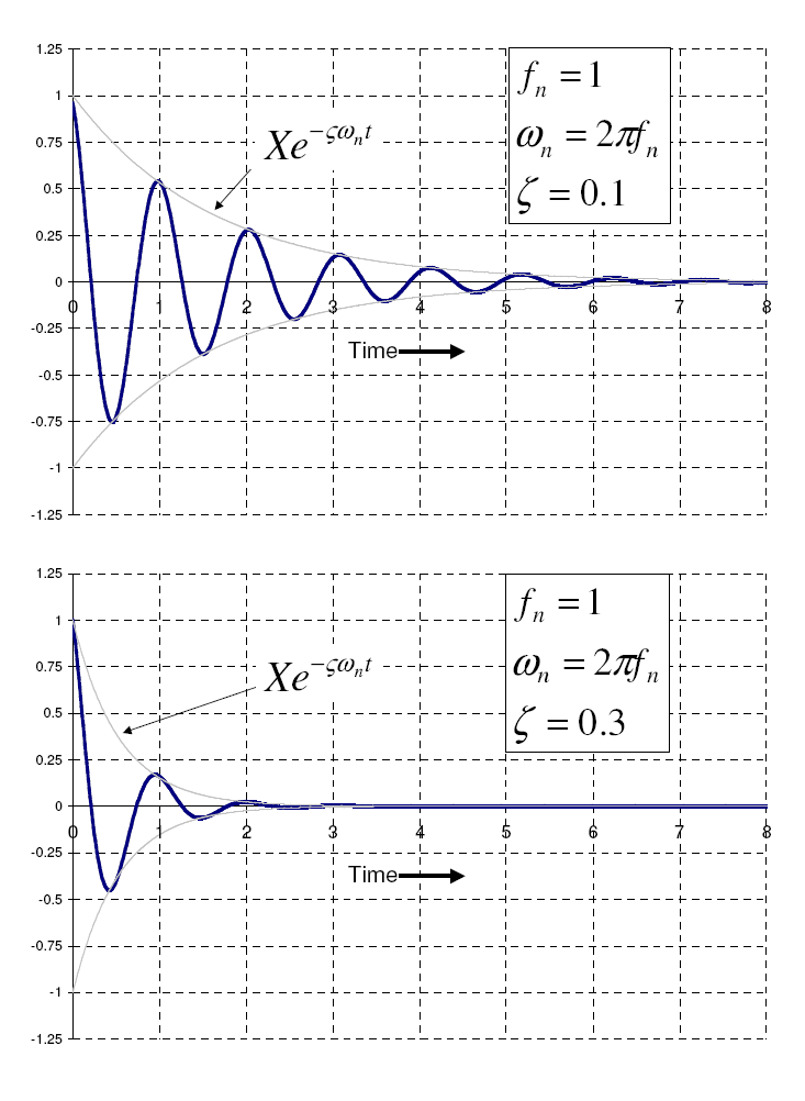 Lzyvz For vibration article